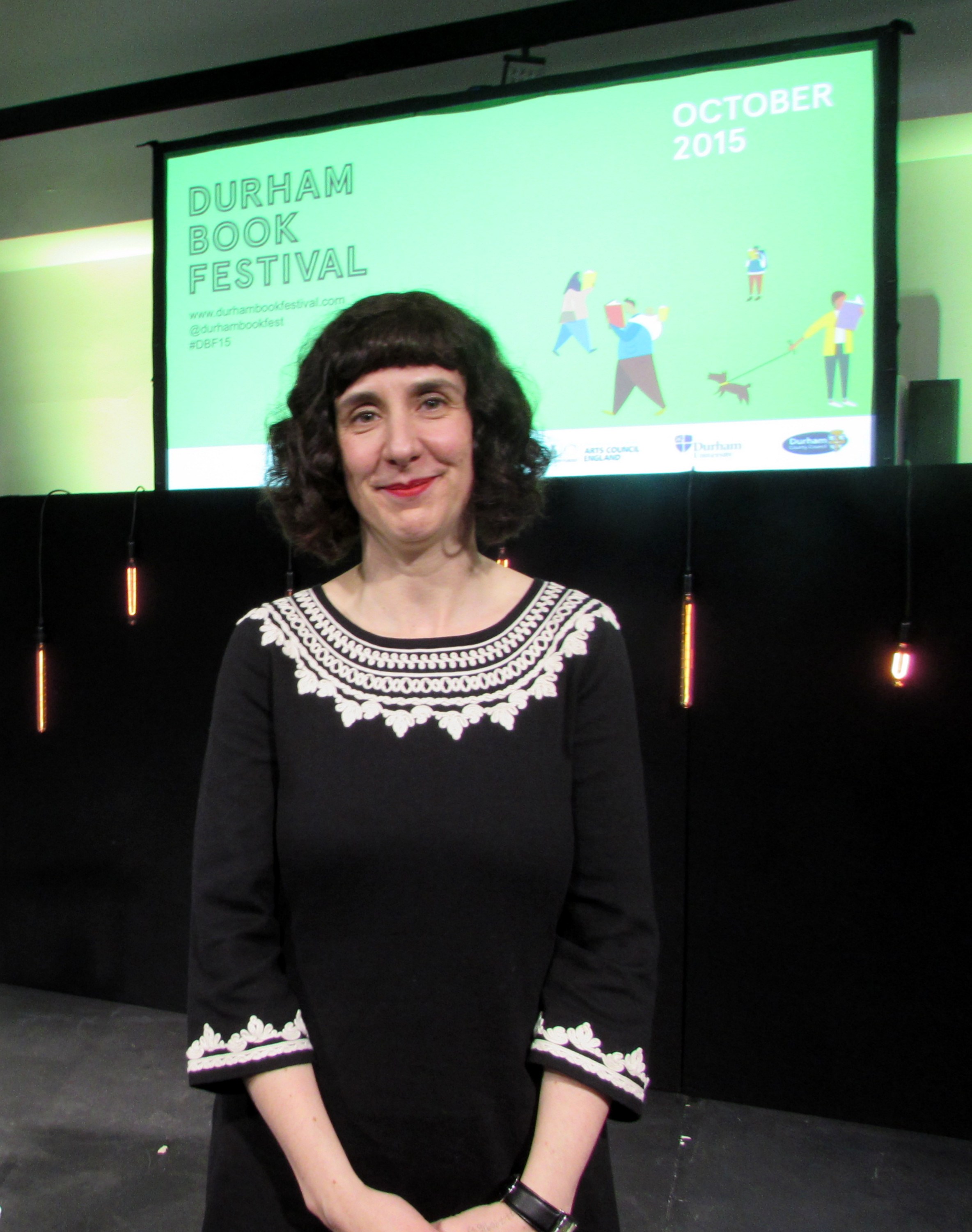 Today's progamme marks the end of the Durham Book Festival with a strong poetic offering in the Palace Green Library. Sinead Morrissey is this year's Festival Laureate and what a star she is. A power-house of such intensely lyrical poetry that seems to strip its subjects naked left the audience in slightly stunned wonder. Her long and insightful writing, delivered from heart was clearly the best performance of the entire festival's poetry programme and I think Durham's best laureate to date. If you get the slightest chance of seeing her, take it. I certainly intend to. A super end to another great festival from Durham. LAST WINTER was not like last winter, we said, when winter had ground its iron teeth in earnest: Befast colder than Moscow and a total lunar eclipse hanging its Chinese lantern over the solstice. Last winter we wore jackets into November and lost our gloves, geraniums persisted, our new pot-bellied stove sat unlit night after night and inside our lungs and throats, embedded in our cells, viruses churned out relaxed, unkillable replicas of themselves in the friendlier temperatures. Our son went under. We'd lie awake not touching, and listen to him cough. He couldn't walk for weakness in the morning. Thoracic, the passages and hallways in our house got stopped with what we would not say-- how, on our wedding day, we'd all at once felt shy to be alone together, back from the cacophony in my tiny, quiet flat and surrounded by flowers. Sinead Morrissey